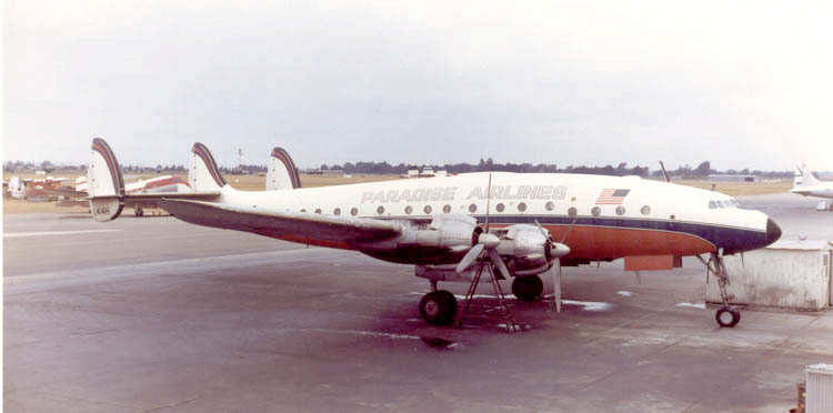 Lockheed Constellation of Paradise Airlines at Oakland.